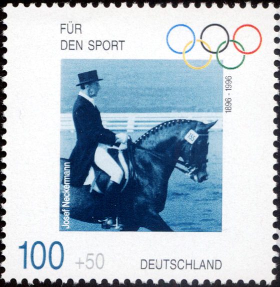 Stamp from Deutsche Post AG from 1996, Josef Neckermann